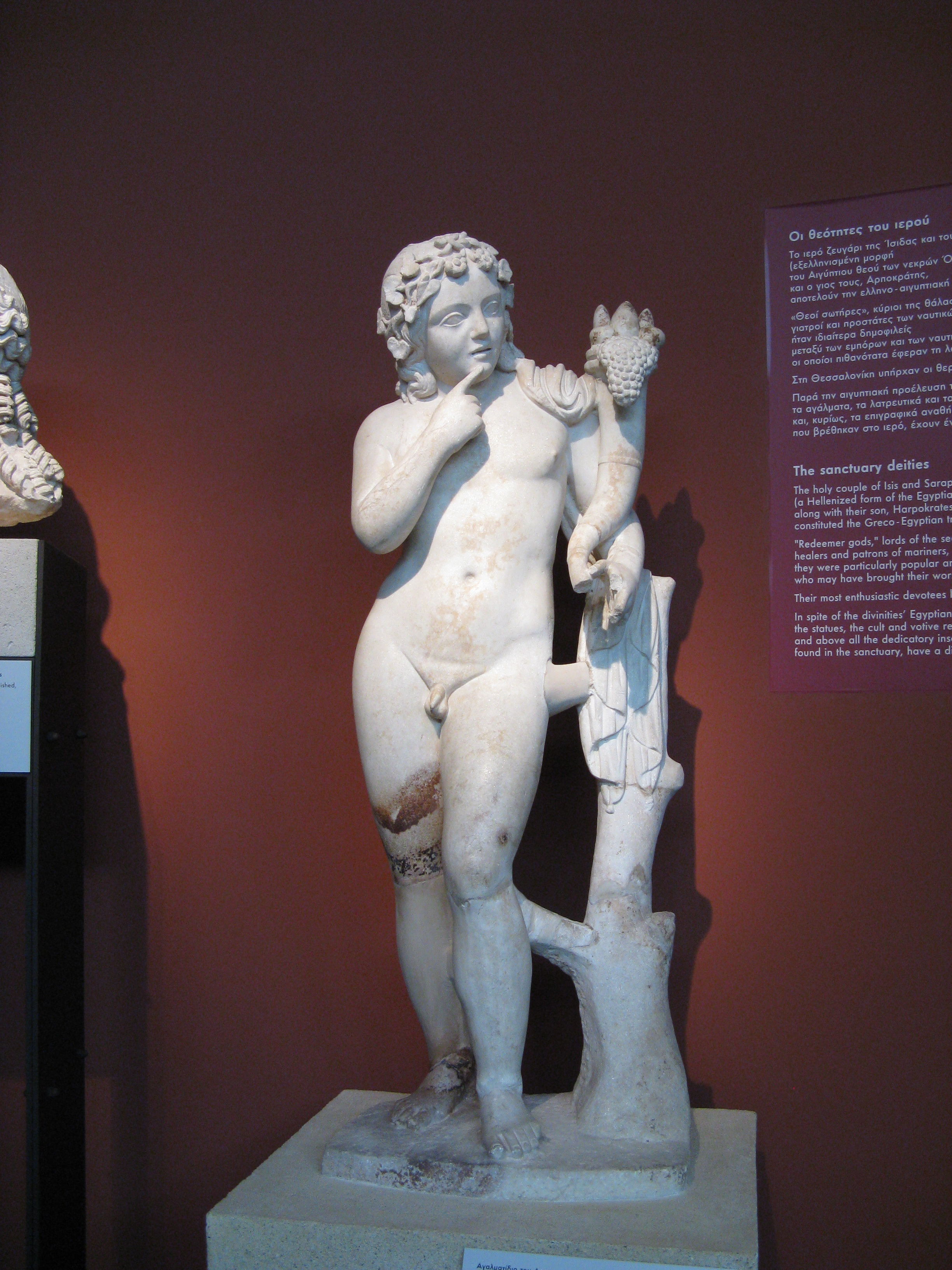 The Hellenistic god Harpocrates, in Salonica's Archaeological Museum, 3rd c A.d..